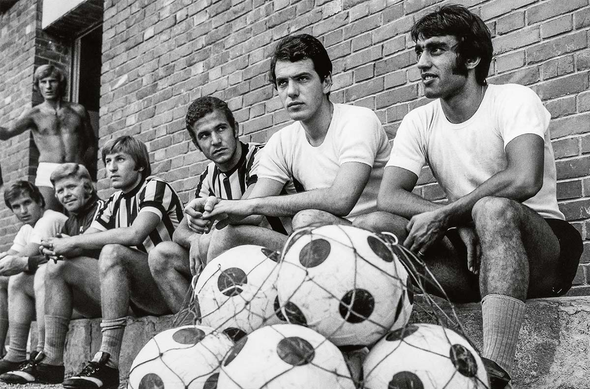 Villar Perosa (Piedmont, Italy), August 5, 1971. Some Juventus F.C. footballers in a training break during the 1971–72 preseason; from left to right: Gianluigi Roveta, Francesco Morini (standing), Helmut Haller, Gianpietro Marchetti, Luciano Spinosi, Roberto Bettega and Pietro Anastasi.